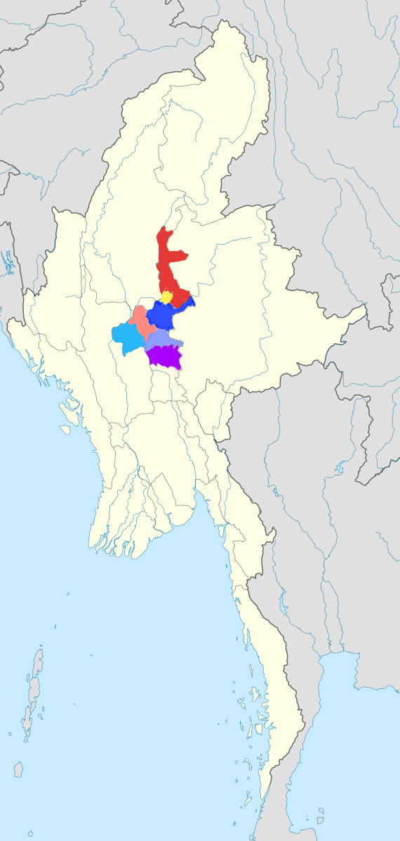 The seven districts of Mandalay Region, Mandalay, Kyaukse, Pyin Oo Lwin, Myingyan, Nyaung Oo, Meikhtila and Yamethin.